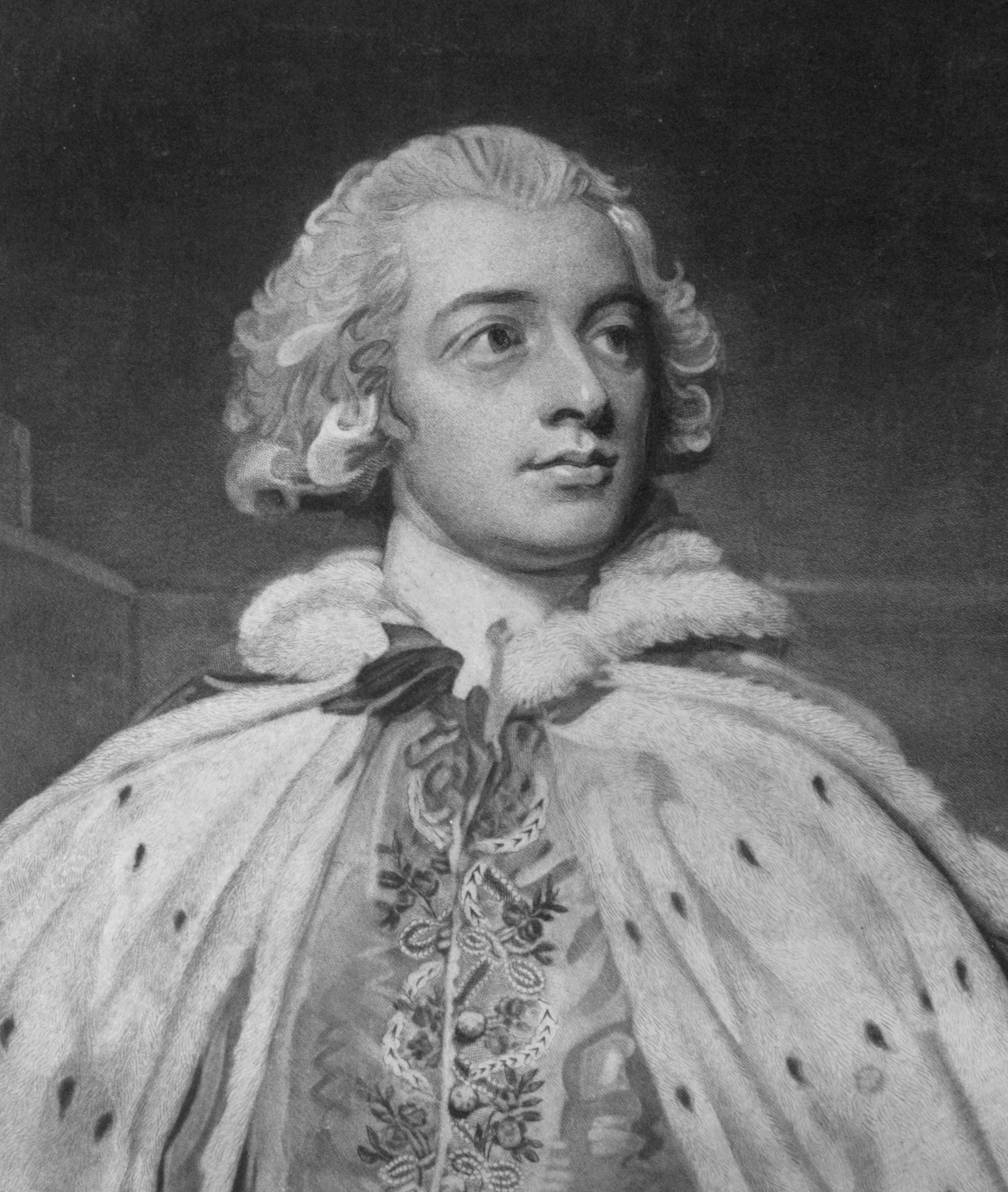 Photo (by me, R. de Salis, Rodolph (talk) 23:51, 18 August 2015 (UTC)) of a detail of a mezzotint portrait by John Jones (circa 1745-1797) after George Romney of John Fane, 10th Earl of Westmorland, 1796.